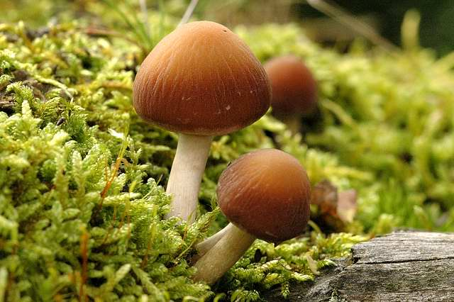 Psathyrella piluliformis from Commanster, Belgian High Ardennes. The determination of the species shown in this picture has been verified.